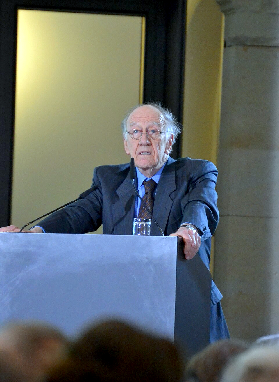 Academies day 2015 at the Berlin-Brandenburg Academy of Science in Berlin; Theme: "Old world today: Perspectives and threats". Image: Historian of ancient history Professor Christian Meier.